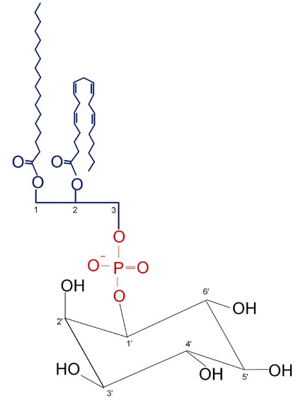 Chemical structure of sn-1-stearoyl-2-arachidonoyl phosphatidylinositol. Original work by jagowins.